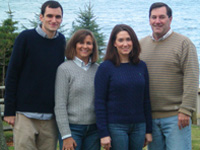 Indiana Democratic Senator Joe Donnelly, with his family. Son Joe, Jr. (left), wife Jill (center) and daughter Molly (right).